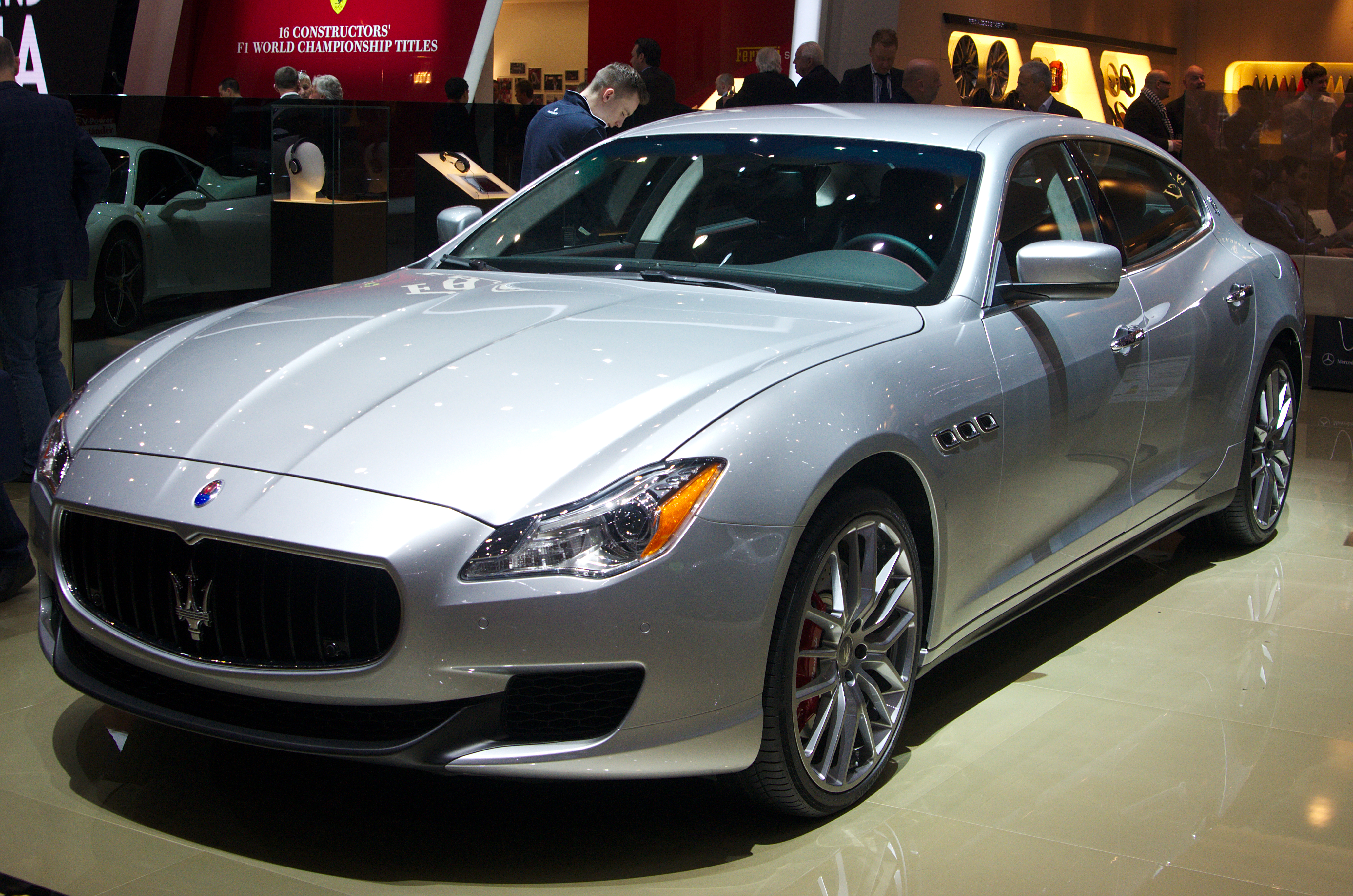 Geneva MotorShow 2013 - Maserati Quattroporte grey front right view